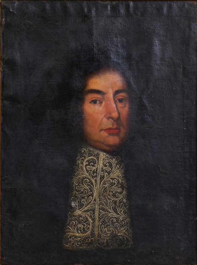 Luís Lobo da Silveira, 2nd Count of Sarzedas (1640-1706)